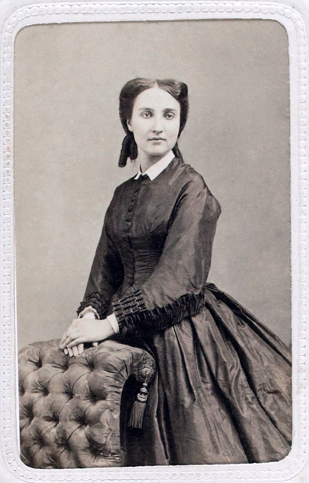 Empress Carlota of Mexico (1840-1927)